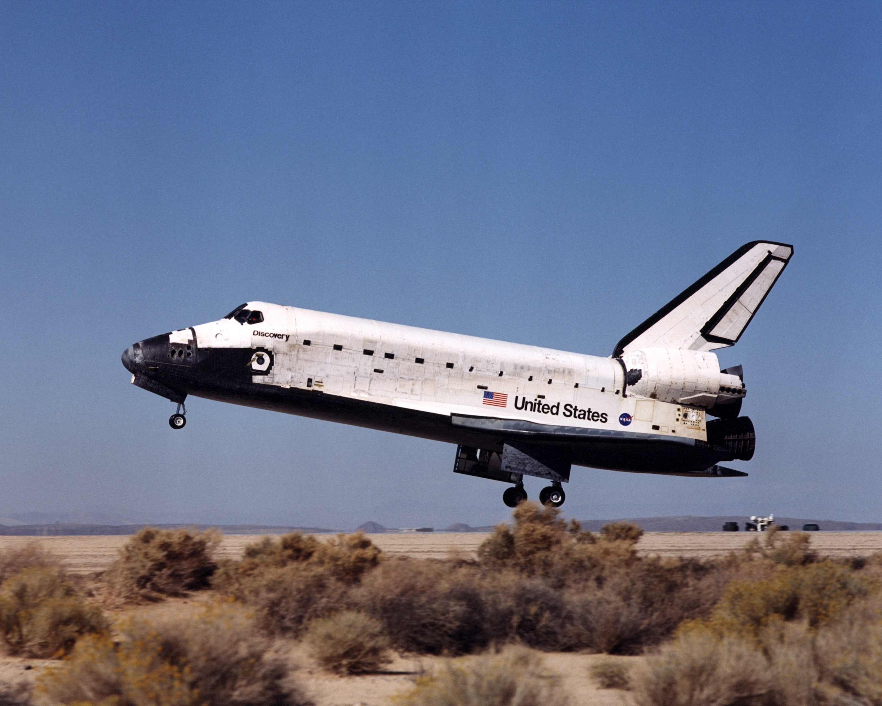 The Space Shuttle Discovery glides in for landing at Edwards Air Force Base in Southern California at the conclusion of mission STS-92 on October 24, 2000. STS-92 was the 100th mission since the fleet of four Space Shuttles began flying in 1981. (Due to schedule changes, missions are not always launched in the order that was originally planned.) The almost 13-day mission was the last construction mission for the International Space Station prior to the first scientists taking up residency in the orbiting space laboratory the following month. The seven-member crew on STS-92 included mission specialists Koichi Wakata, Michael Lopez-Alegria, Jeff Wisoff, Bill McArthur and Leroy Chiao, pilot Pam Melroy and mission commander Brian Duffy.